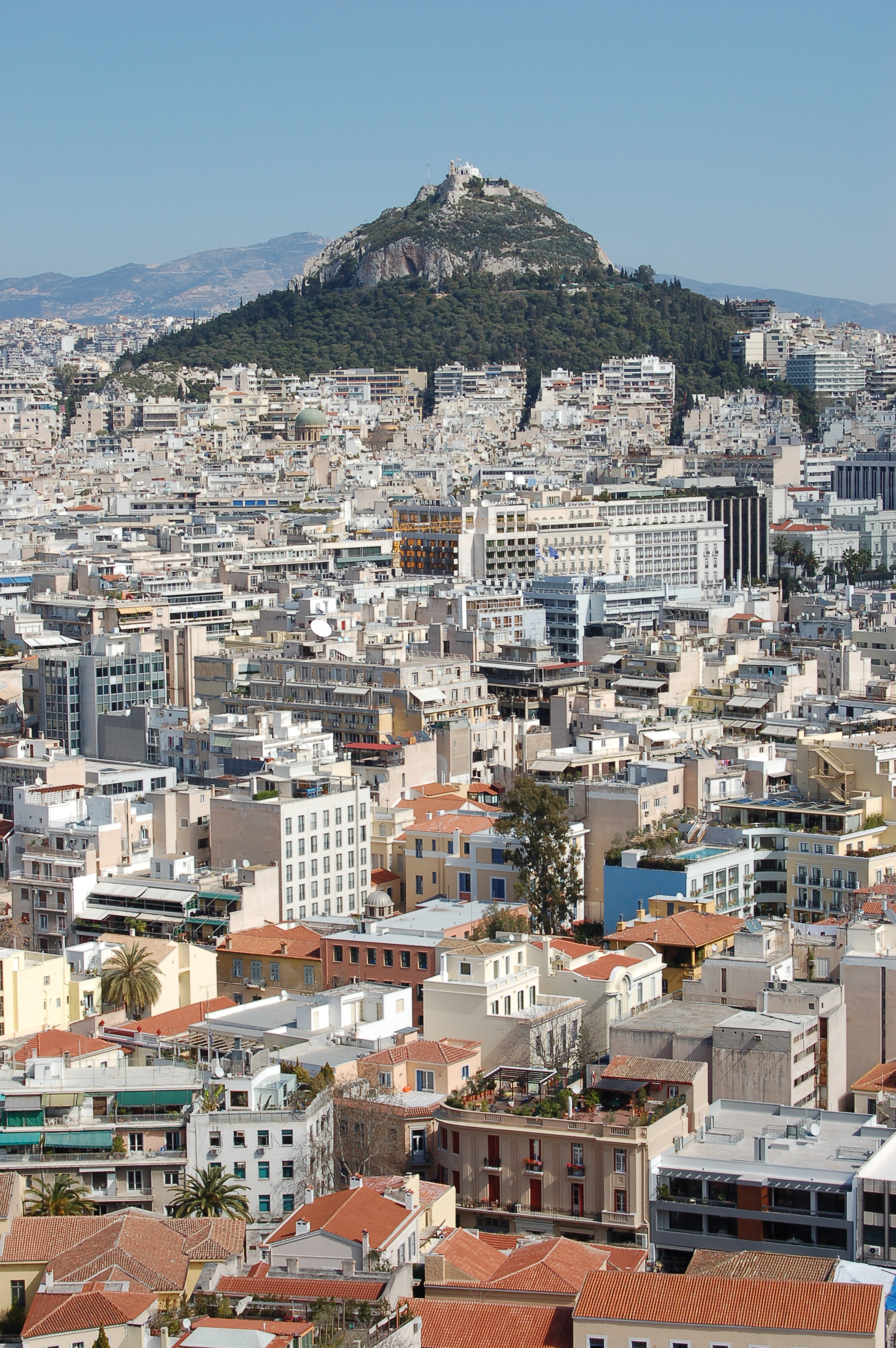 Photograph of Mount Lycabettus, Athens